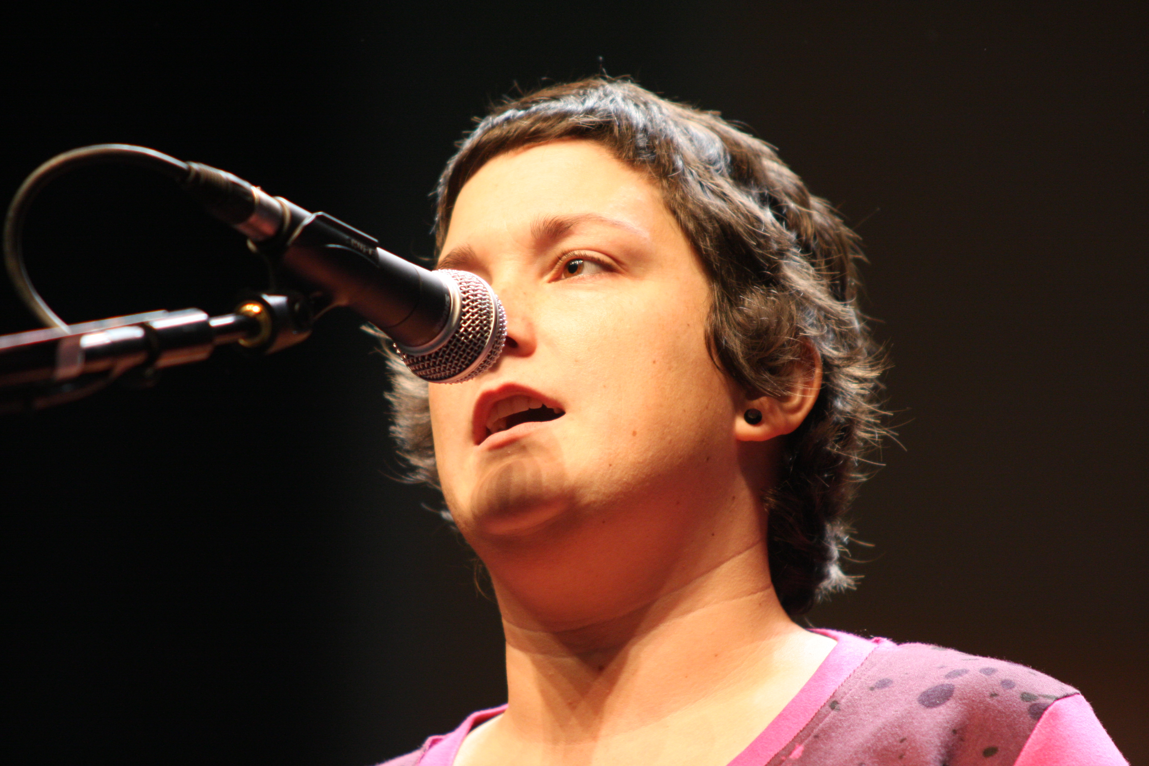 Onintza Enbeita